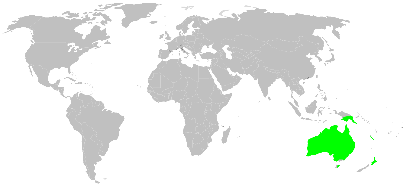 Known world distribution of Nephila edulis, after Australian Museum, 2002